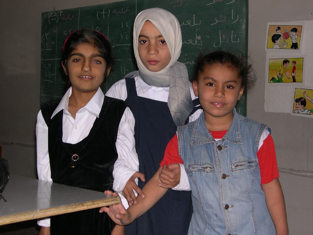 Deaf students in the classroom. Baghdad, Iraq (April 2004). Photo by Peter Rimar.